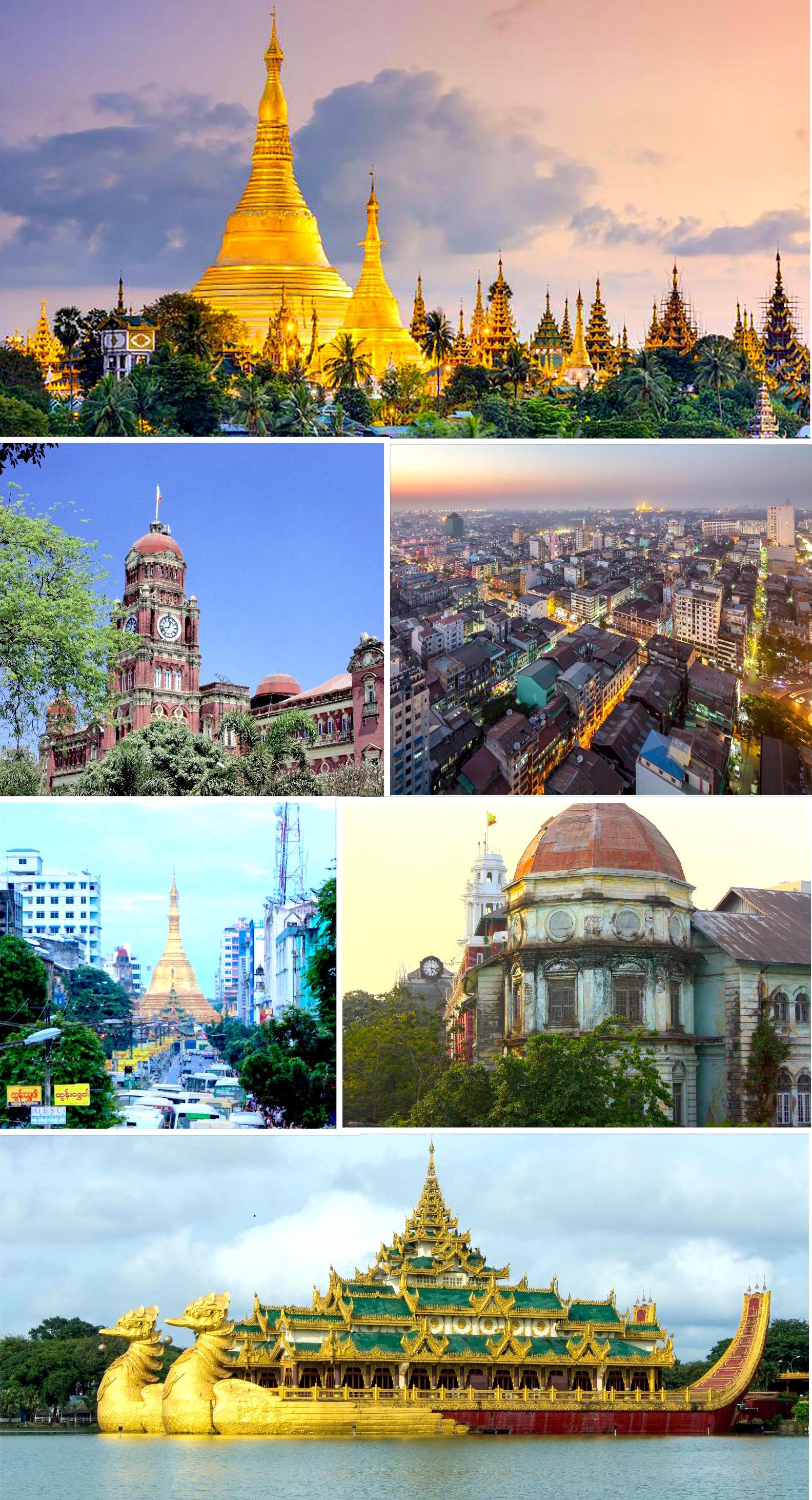 Clockwise from top: Shwedagon Pagoda Central Yangon at night Colonial-era buildings along Strand Road Sule Pagoda Yangon High Court